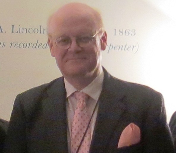 Callie Hawkins; Erin Carlson, Mast, Director of President Lincoln’s Cottage; Professor Spencer Crew; Dr. Lucas Morel; Dr. Allen Guelzo; Ambassador Luis CdeBaca, Director of the State Department’s Office to Monitor and Combat Trafficking in Persons; and Martin Castro, Chair of U.S. Commission on Civil Rights; pose for a photograph at President Abraham Lincoln’s Cottage in Washington, D.C., January 3,2013. January 1, 2013, marked the 150th Anniversary of the Emancipation Proclamation. [State Department photo/ Public Domain]